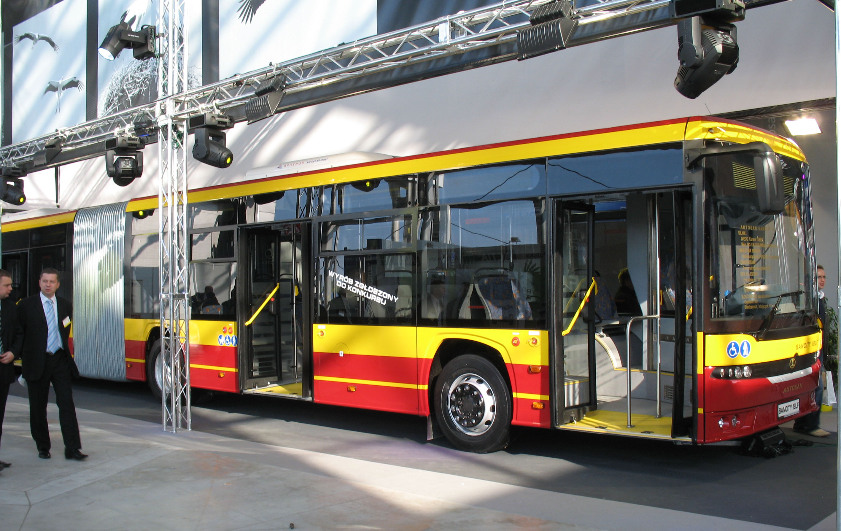 Autosan Sancity 18 LF articulated city bus in Kielce, Poland. Built 2010. Transexpo 2010.